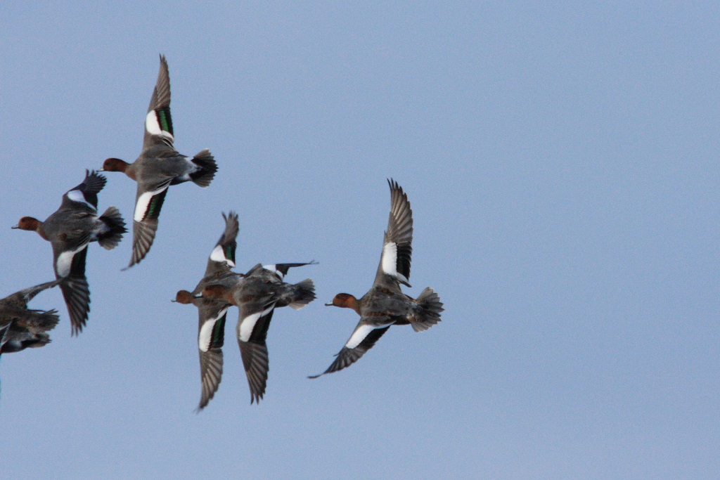 Several Eurasian Wigeon flying near Rutland Water, Rutland, England.